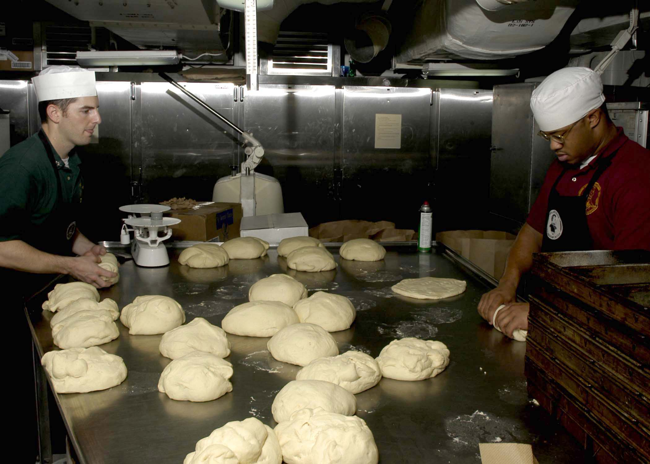 Indian Ocean (Jan. 2, 2005) - Culinary Specialist 3rd Class Joshua Savoy and Culinary Specialist 3rd Class Davy Nugent prepares bread in the bakery aboard the Nimitz-class aircraft carrier USS Abraham Lincoln (CVN 72) for the victims of the Tsunami-stricken areas of Aceh, Sumatra, Indonesia. Abraham Lincoln Carrier Strike Group is currently operating in the Indian Ocean off the waters of Indonesia and Thailand. U.S. Navy photo by Photographer's Mate Airman Apprentice Timothy C. Roache Jr. (RELEASED)